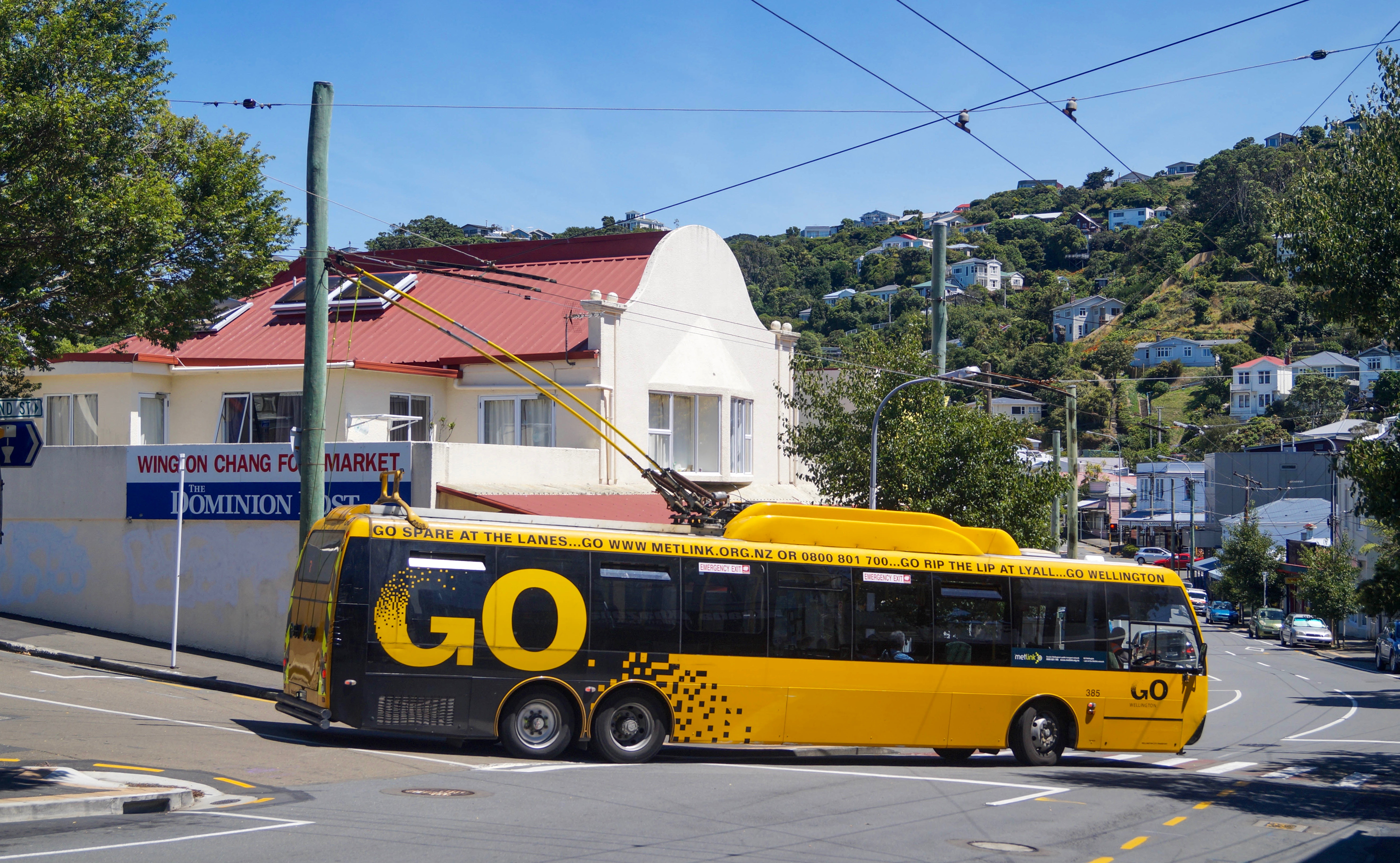 Wellington trolleybus 385 turning into Cleveland Street from the Brooklyn Library stop, inbound from Kingston on route 7. It is turning off of Harrison Street, but the route and trolley wires are only on that street for a few metres. The route's inbound wiring diverts off of Cleveland Street into an off-street stop for the Brooklyn Library (in the Brooklyn neighbourhood of Wellington), and just runs along Harrison for a few metres on the way out of the stop and back into Cleveland Street.